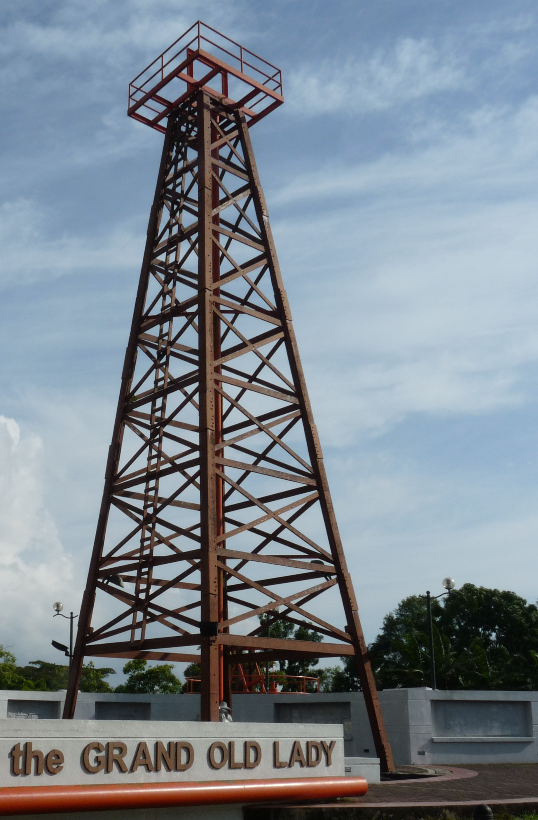 This is the first commercially viable oil well discovered in Malaysia in 1910. The Oil Well No. 1 (Grand Old Lady) in situated on Canada Hill, Miri, state of Sarawak. It was in production from 1910 to 1972 and is now a historical site with a museum beside the well.